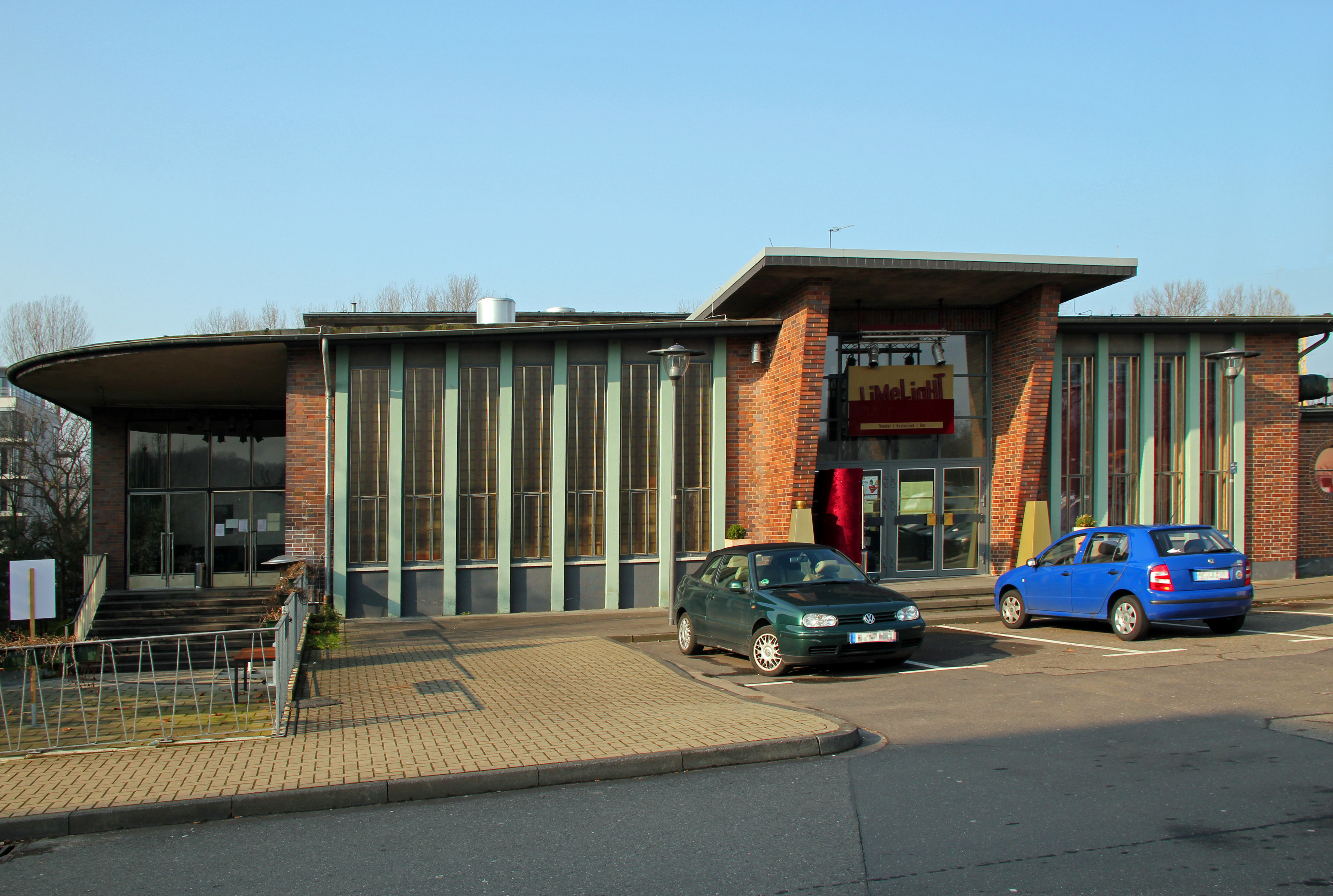 Former belgian military base Haelen, Colognr